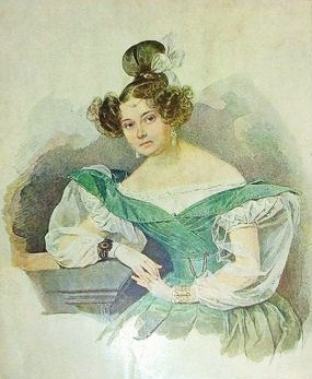 Sophia Alexandrovna Radziwiłł (1804—1889)